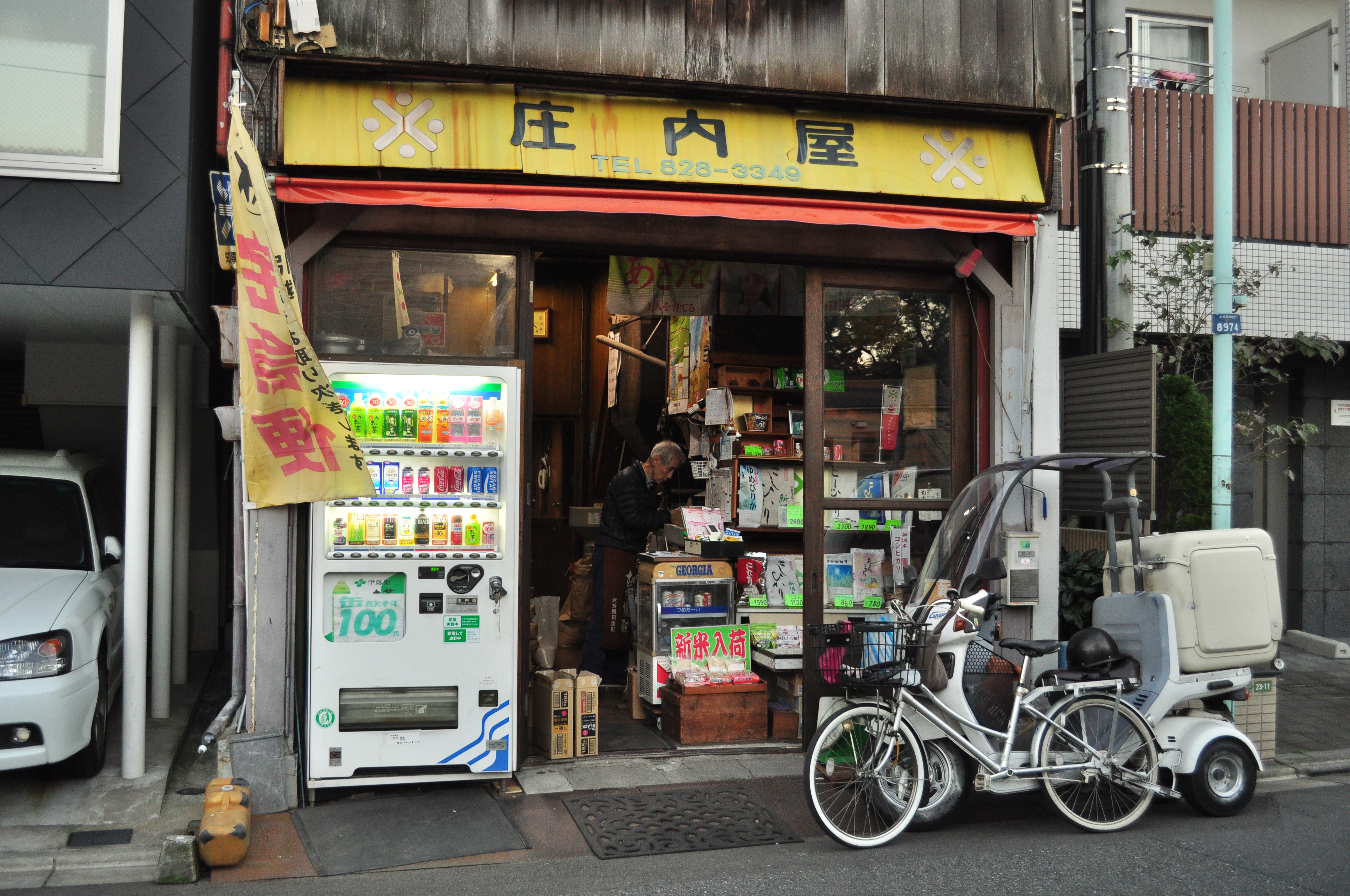 A typical shop in Yanaka, Tokyo. Rob Ketcherside writes (on Joe Mabel's Flickr page): "This is a rice shop. Name is Shounai-ya. Each of the green signs is in front of a bag of rice and shows the price he sells for. Sometimes rice shops have vending machines for rice outside, this one just has soda. "The rice vending machines you put your bucket underneath, put in some coins and turn and the rice comes out."